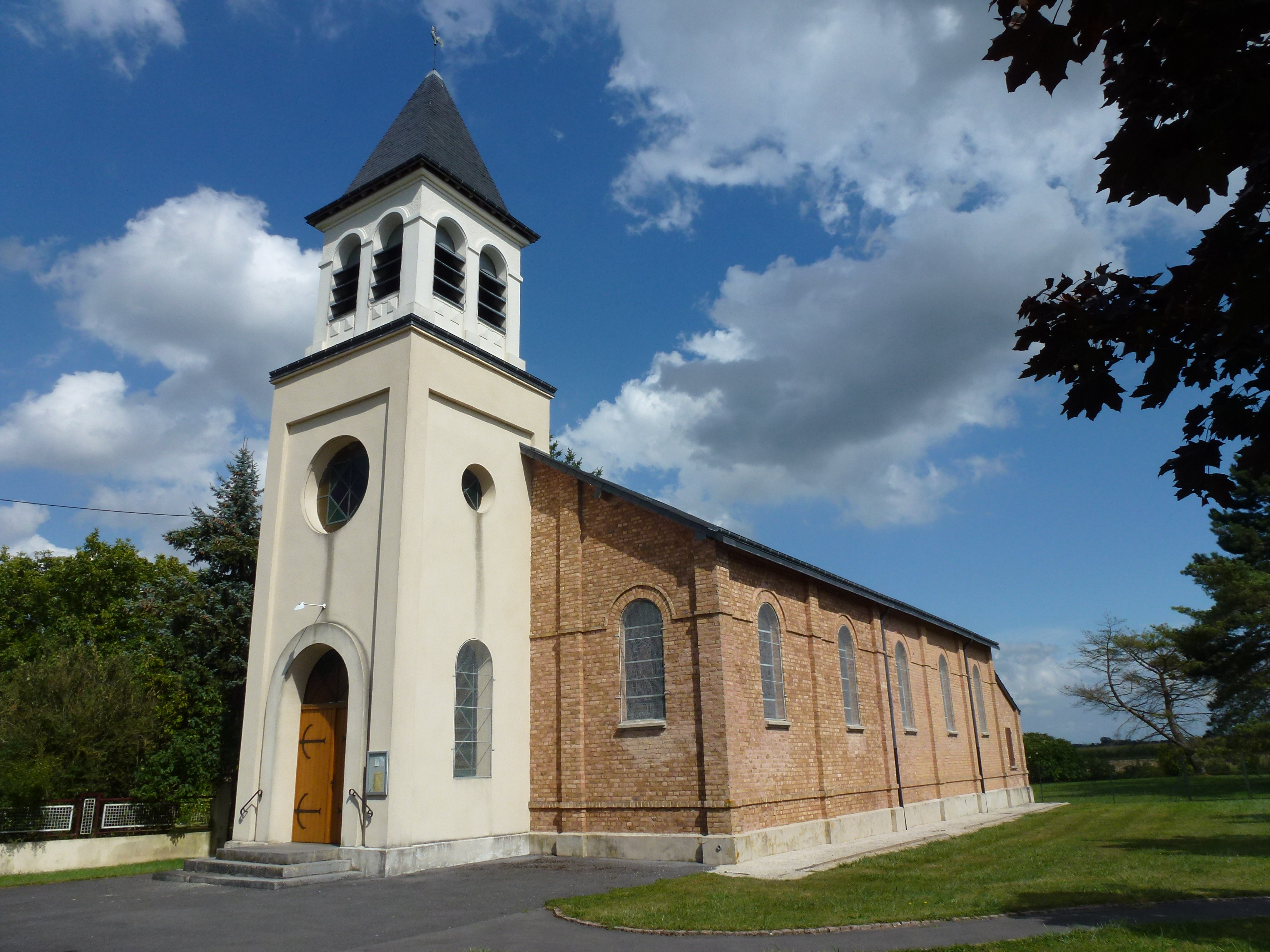 Lucquy (Ardennes) église